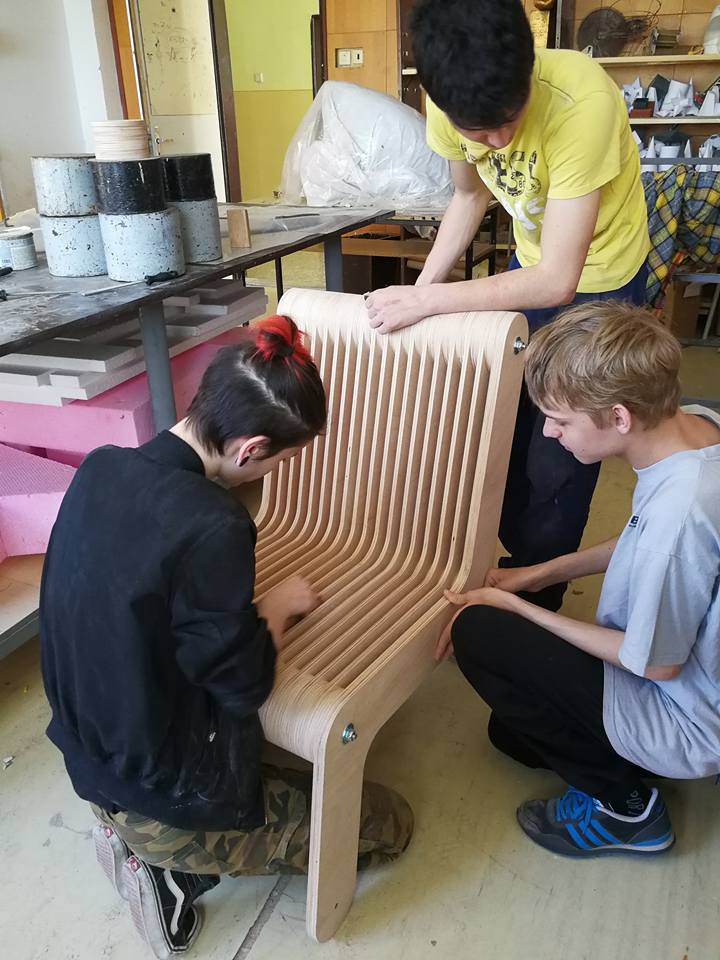 ssos polytechnicka dsa trnava